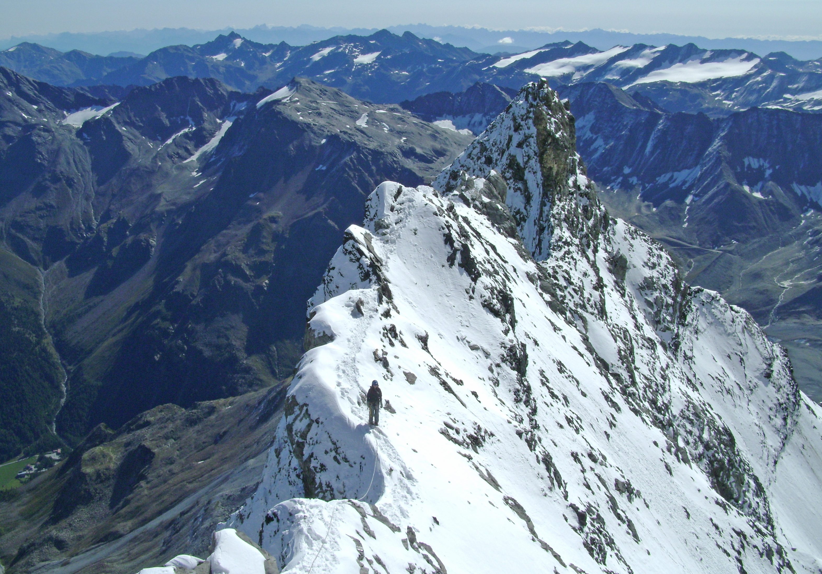 Ascent at the Hintergrat of Ortler